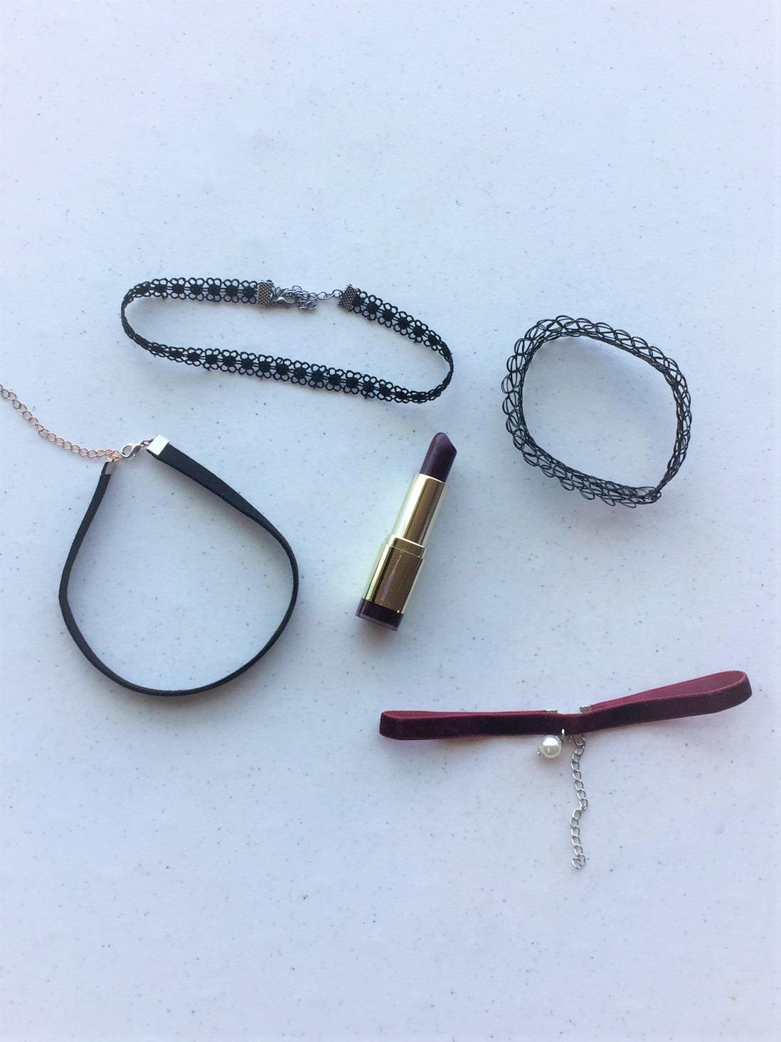 Chokers were commonly used during the 90s.